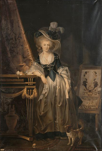 Louise Marie Adélaïde de Bourbon in 1776; wife of Philippe Égalité and mother of King Louis Philippe of the French